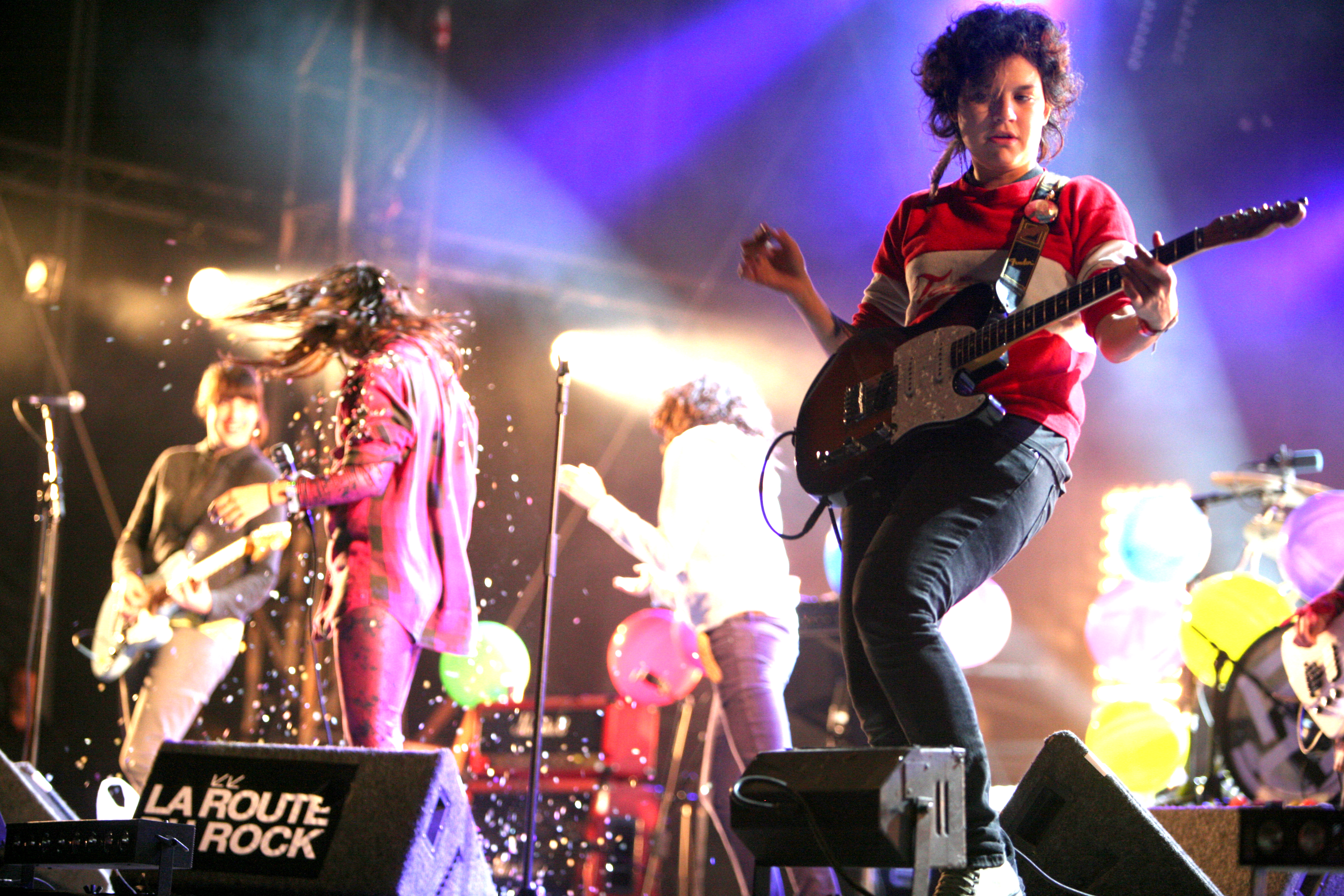 Cansei de Ser Sexy at Route du Rock, August 2007